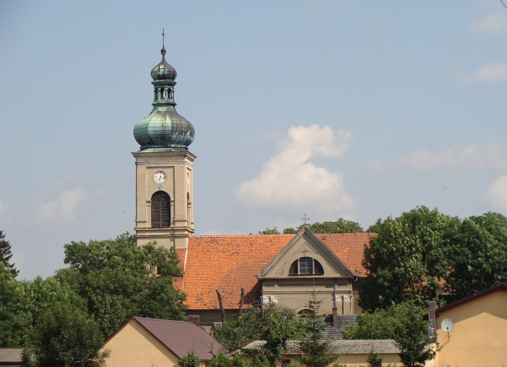 Wieszczyczyn, church of St. Roch.